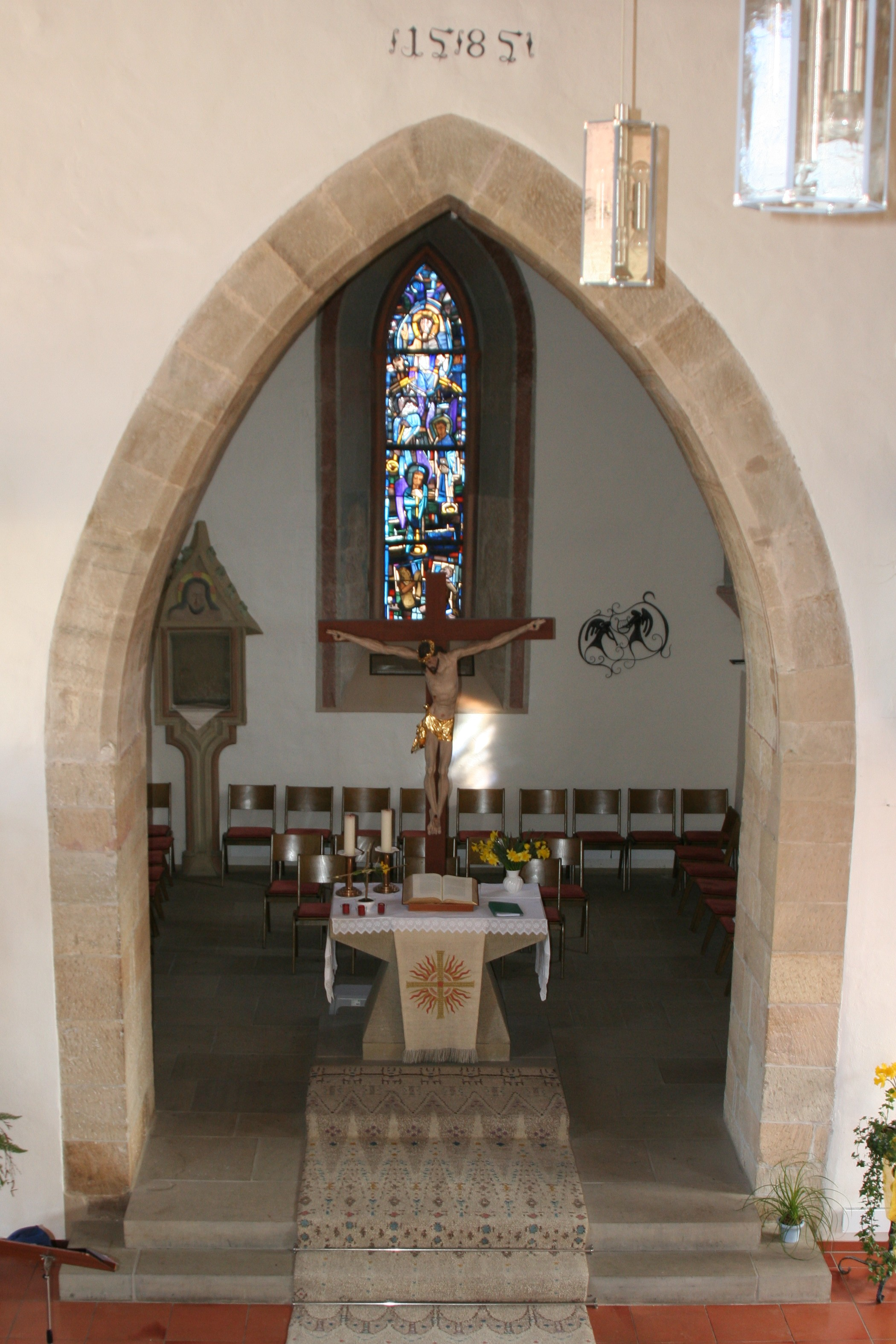 The protestant Ulrich church in Eberstadt, Choir